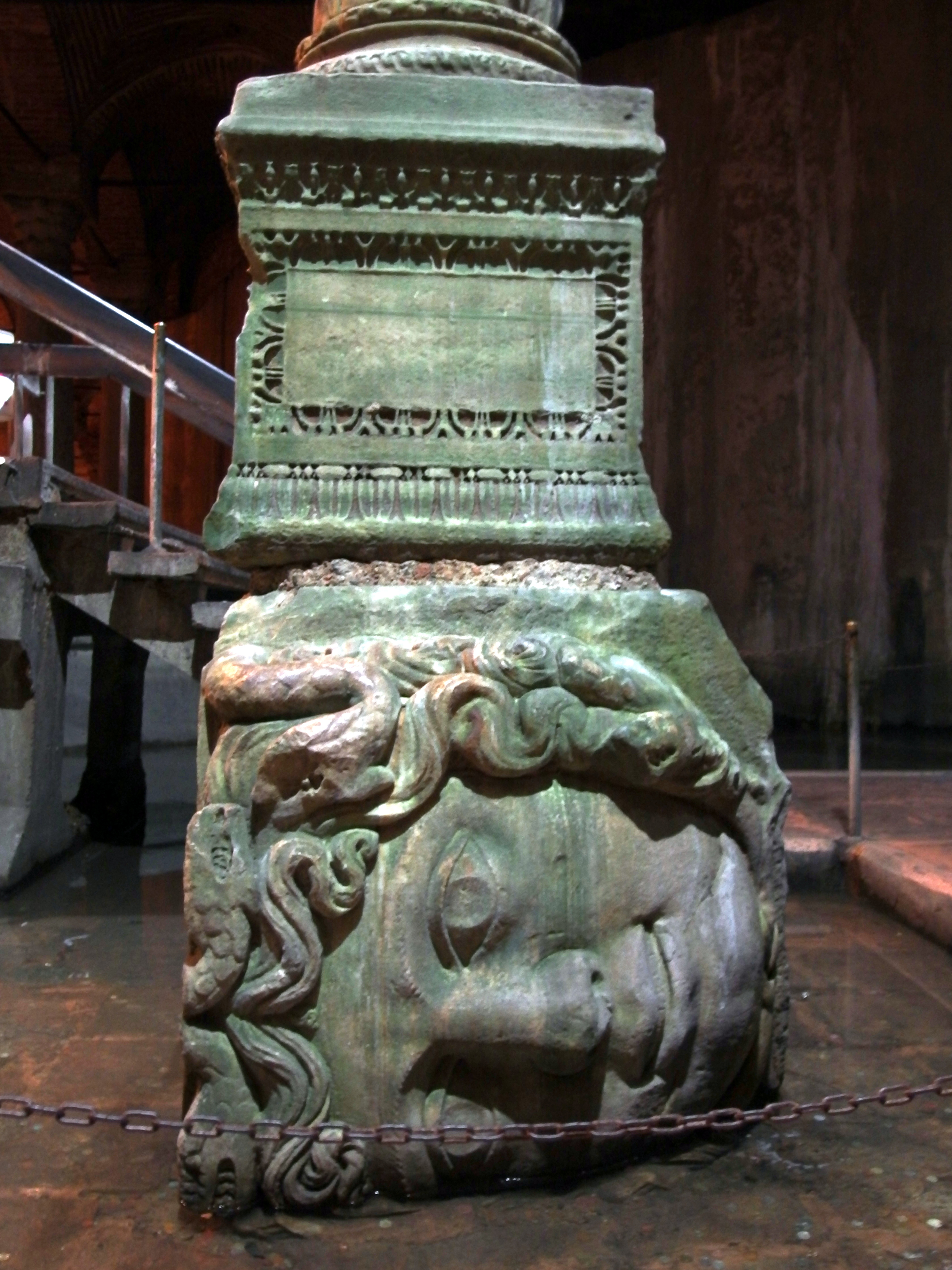 2013-12-03 in Istanbul.